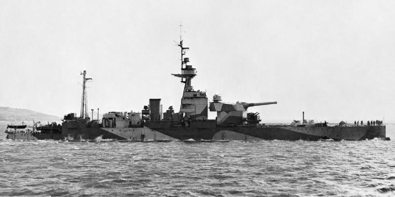 British monitor HMS Erebus at a buoy in Plymouth Sound.